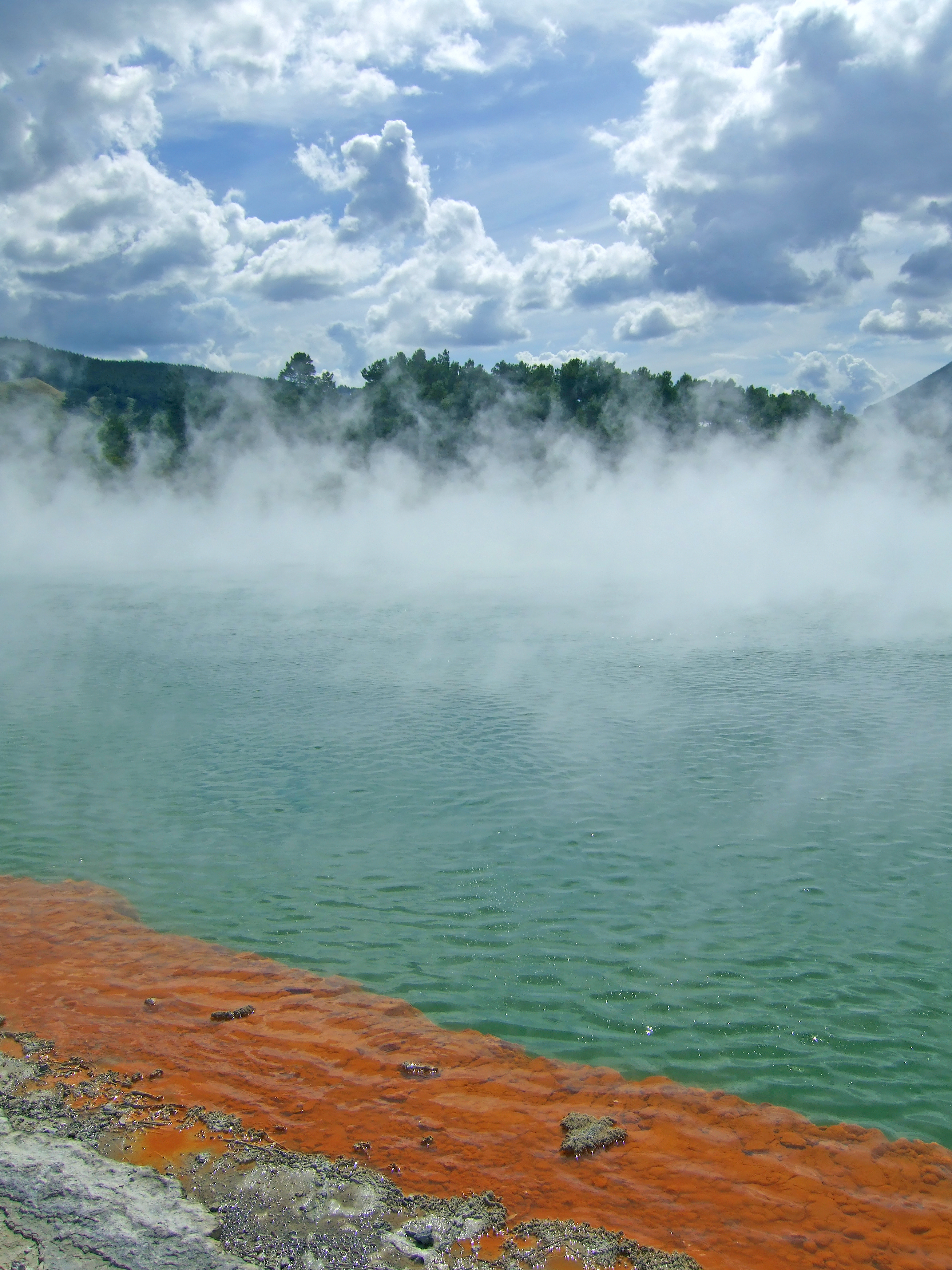 The Champagne Pool, Wai-O-Tapu Geothermal Pools, near Rotorua, New Zealand.